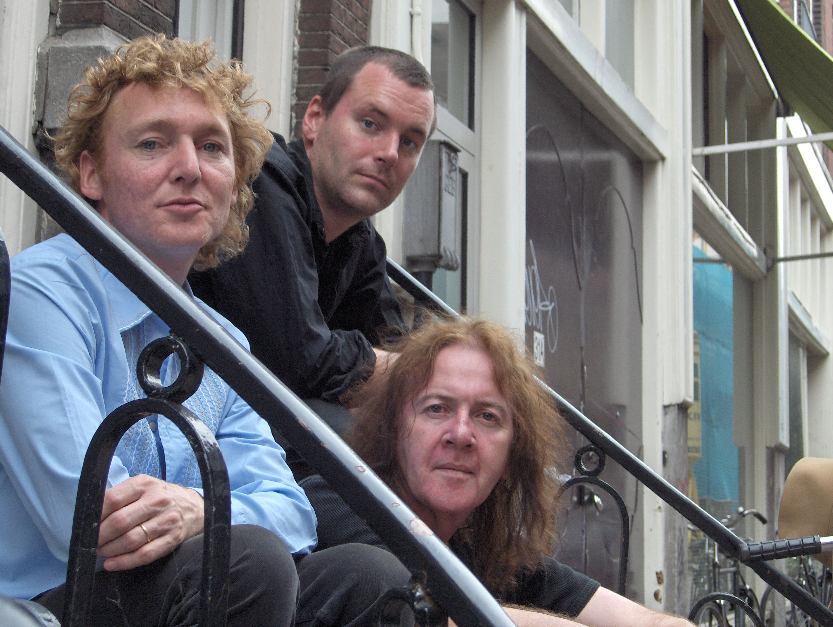 The Saints in Amsterdam by Elisabet